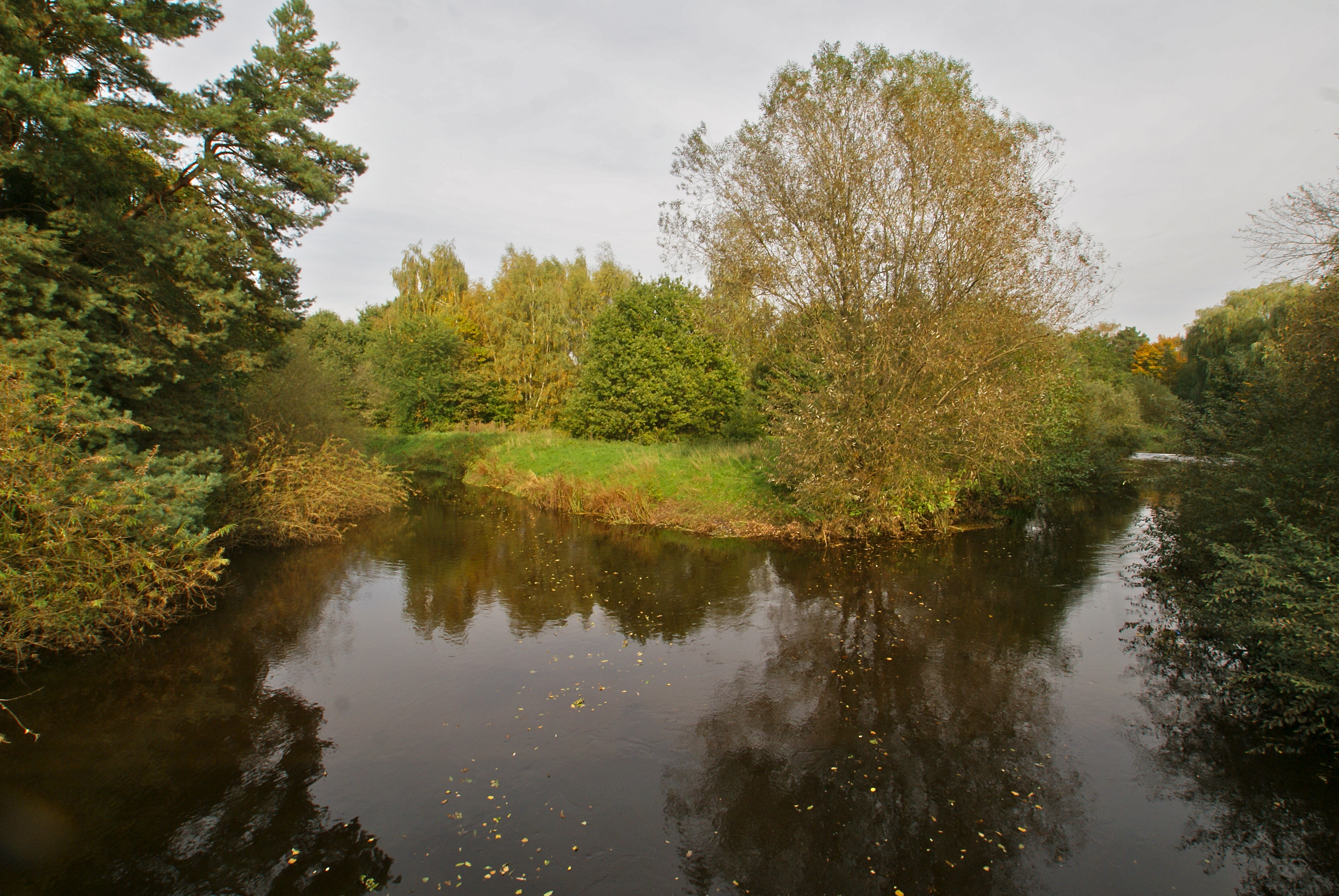 Gifhorn, Germany: Ther river Ise joins the Aller